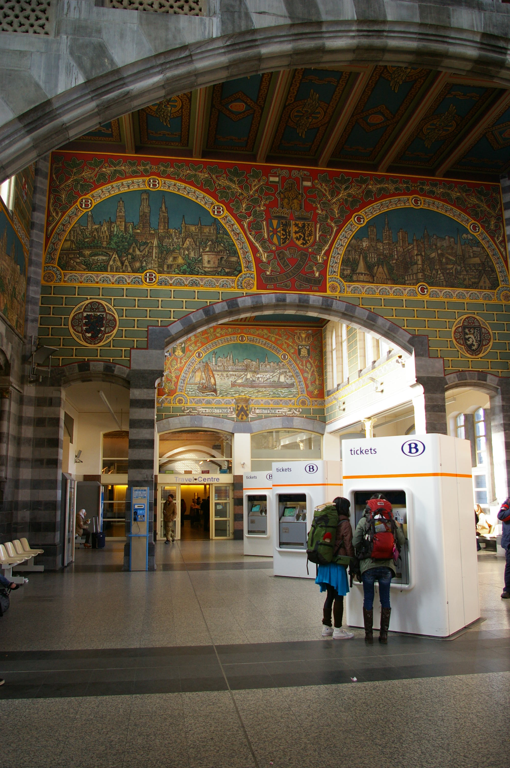 Booking hall of Ghent-Sint-Pieters train station.